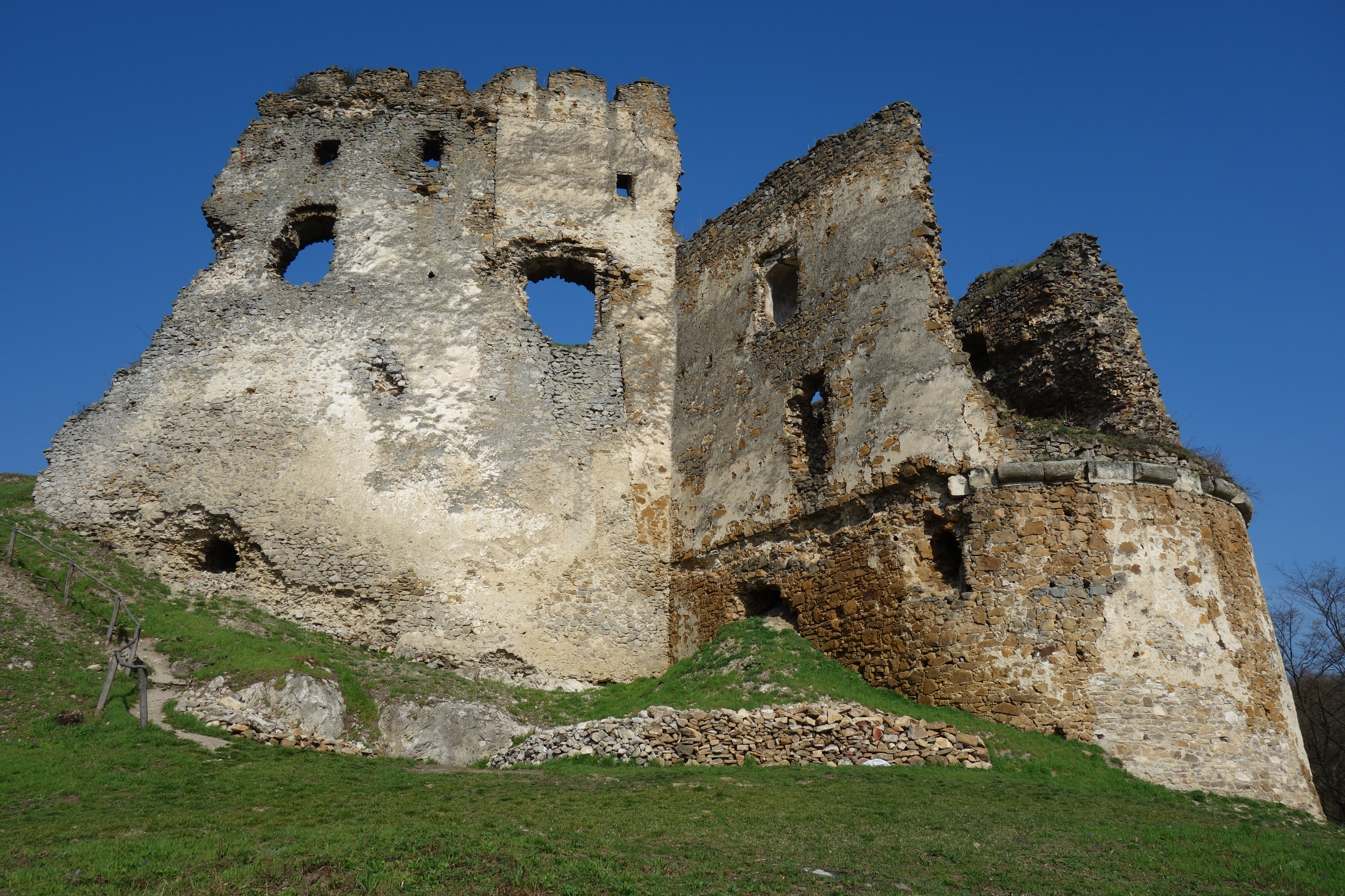 Čičva Castle